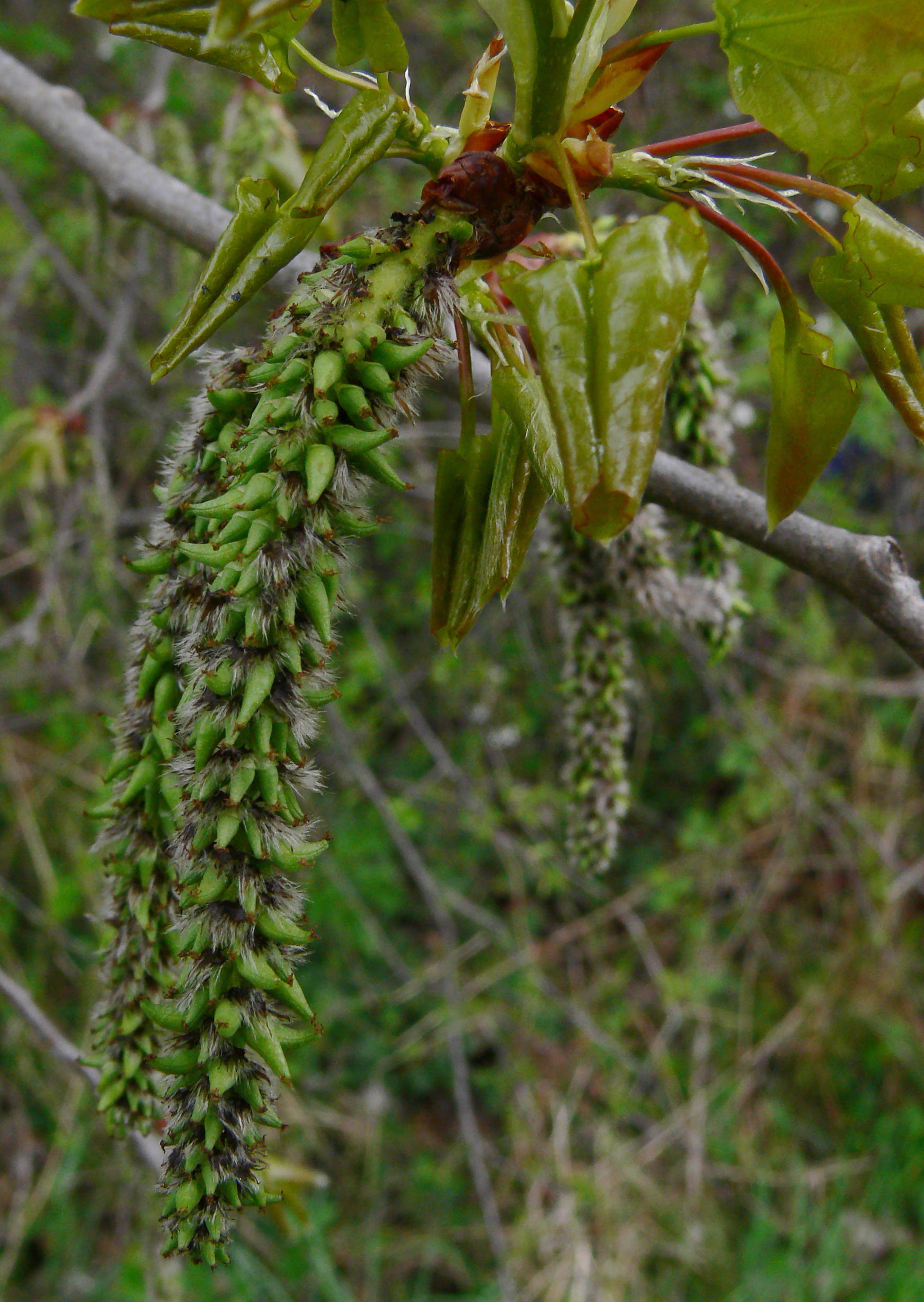 Populus tremula, female catkins, Gerlingen, Germany